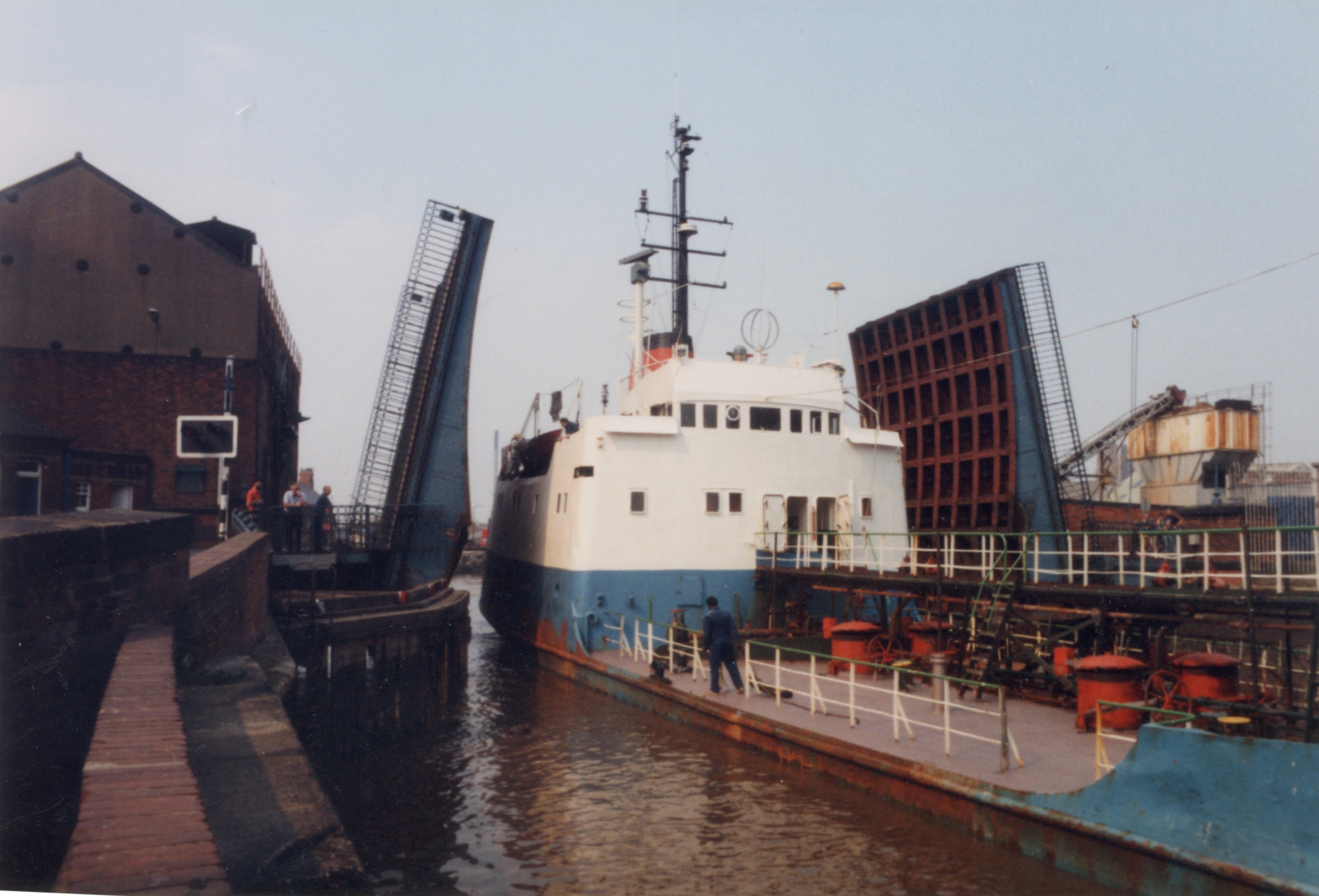 Scott Street Bridge on the River Hull. Taken in 1990 when the bridge was still in operation - it has since been left permanently raised.